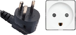 K type power plug and wall outlet. See Talk:Mains power plug for full information.